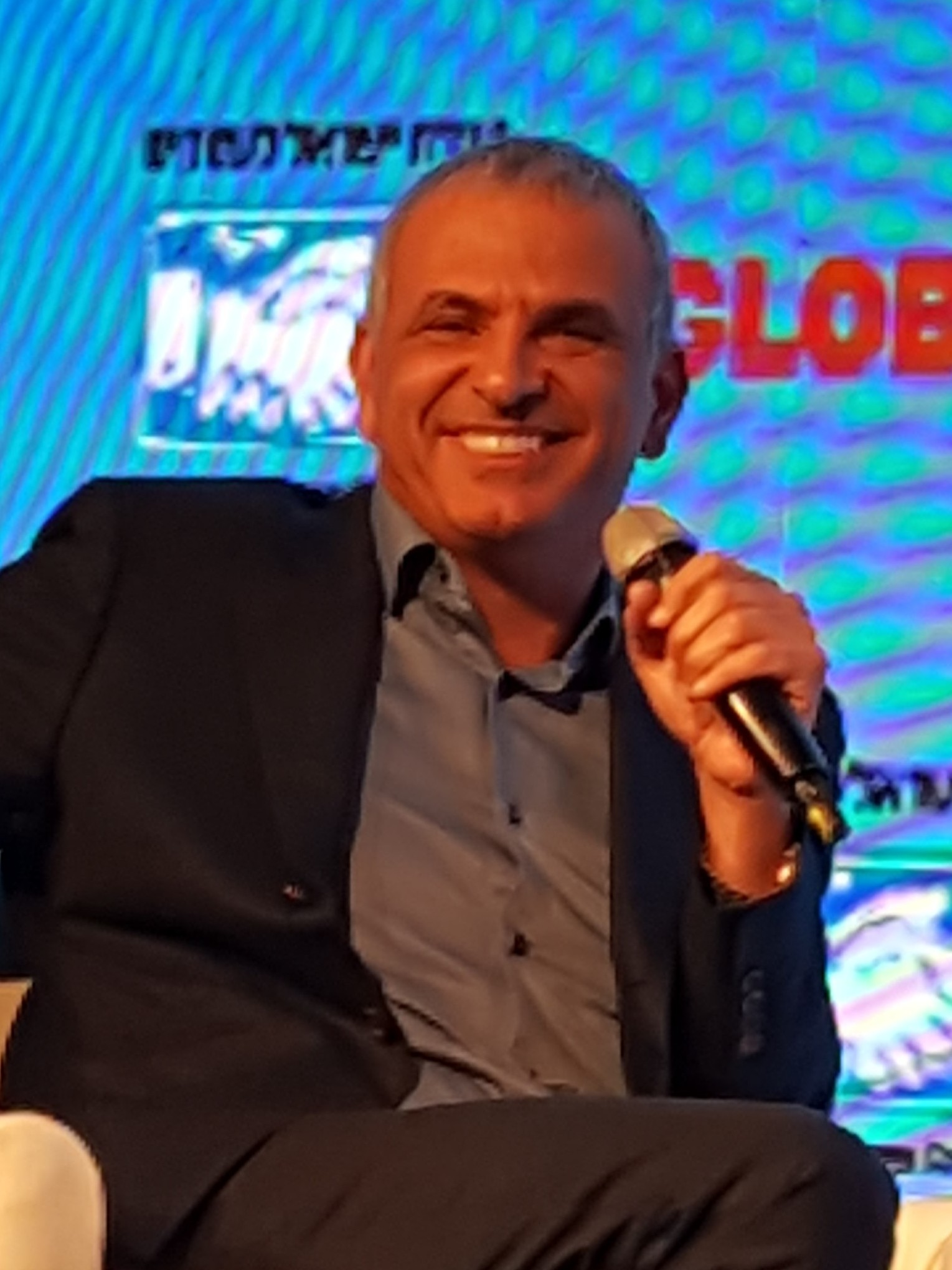 Israel Business conference 2016